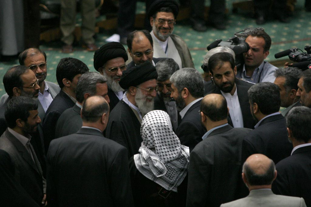 Ayatollah Khamenei's speech at the 3rd International Conference on Quds and Protecting the Rights of the Palestinian People, Iran- Tehran- April 2006